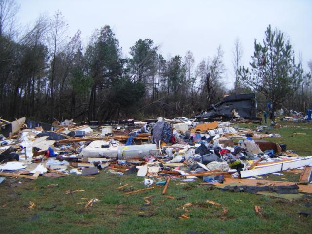 Damage from the EF2 Kenly tornado